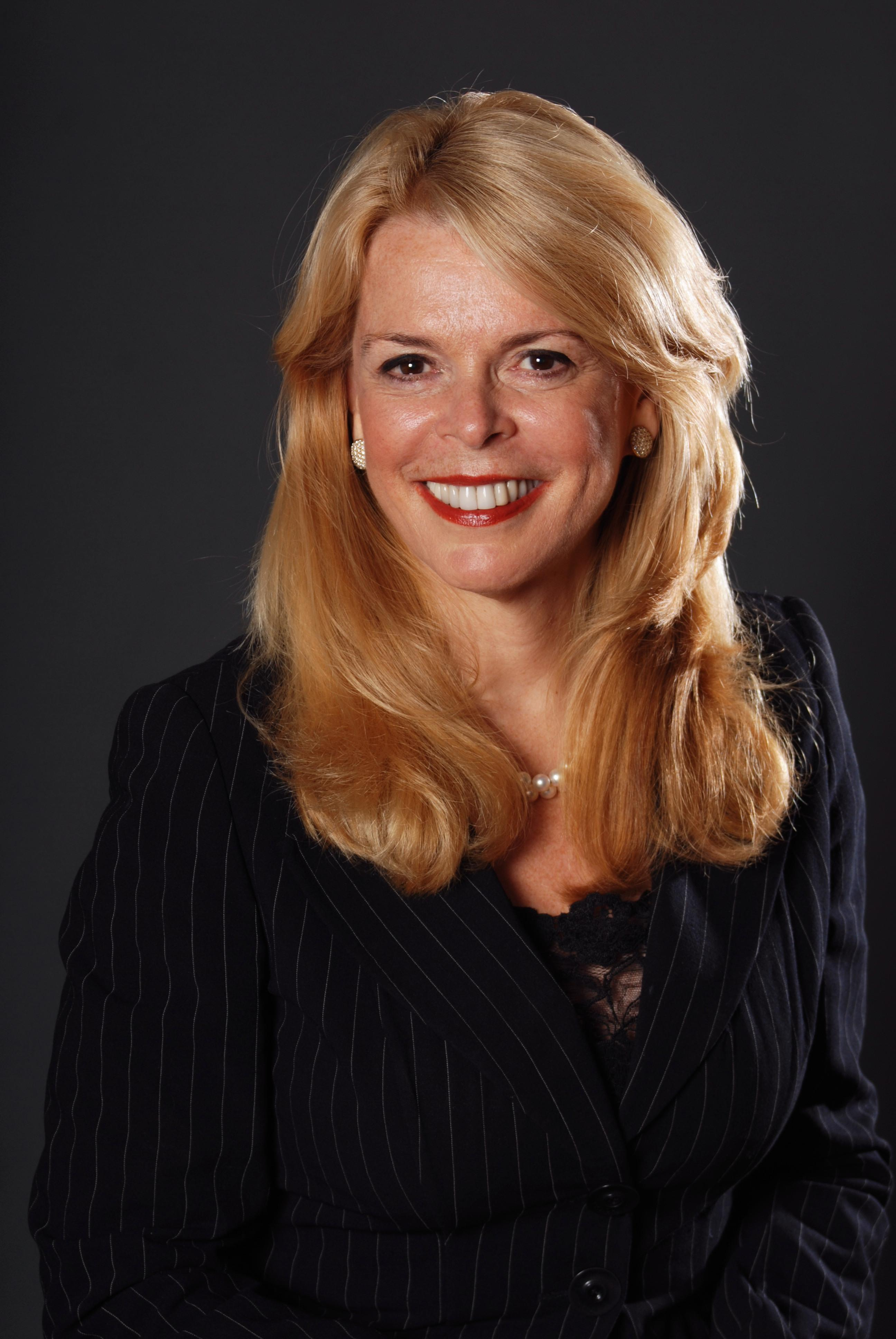 Betsy McCaughey, Lieutenant Governor of New York from 1995 to 1998